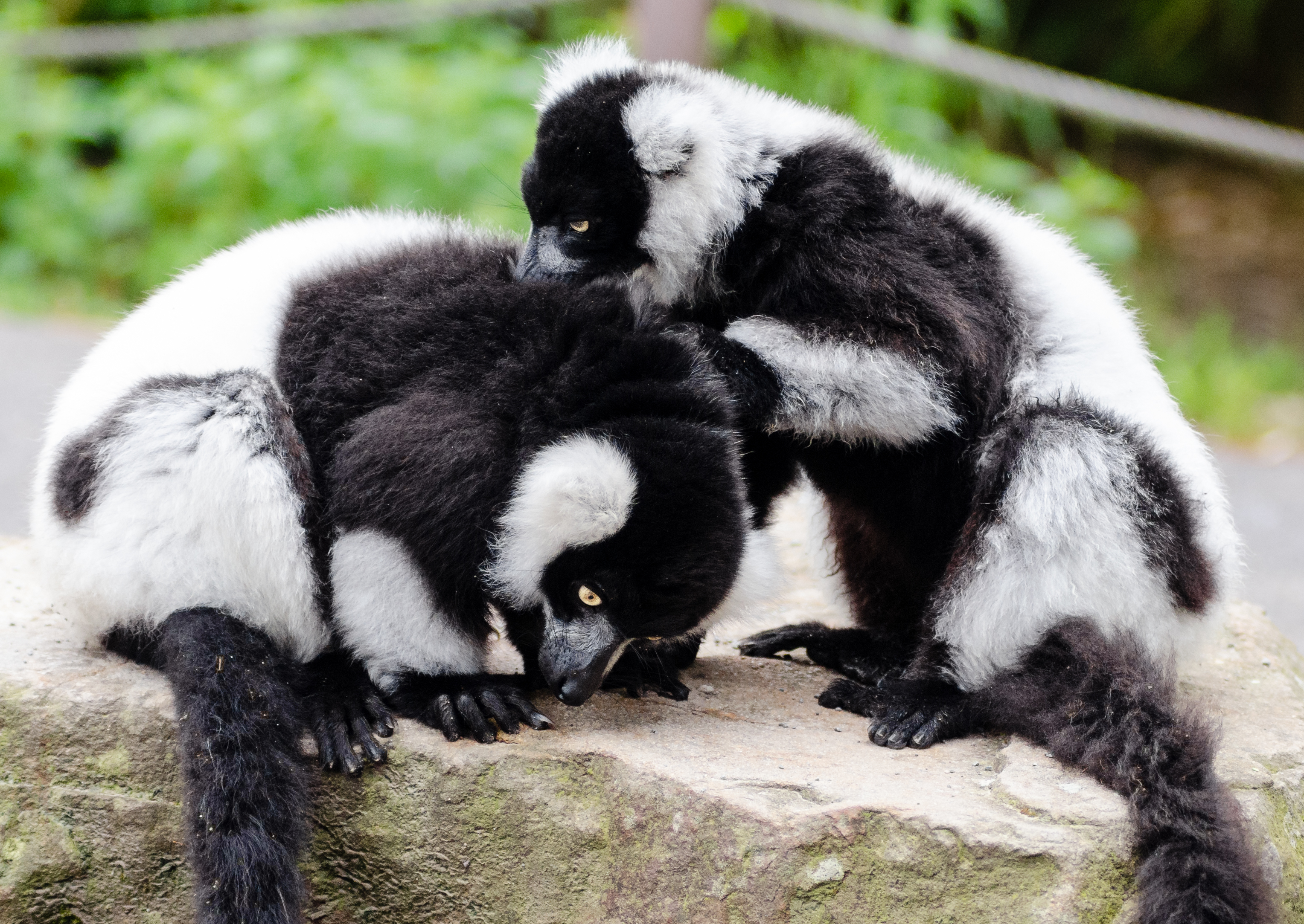 Black-and-white ruffed lemurs grooming each other